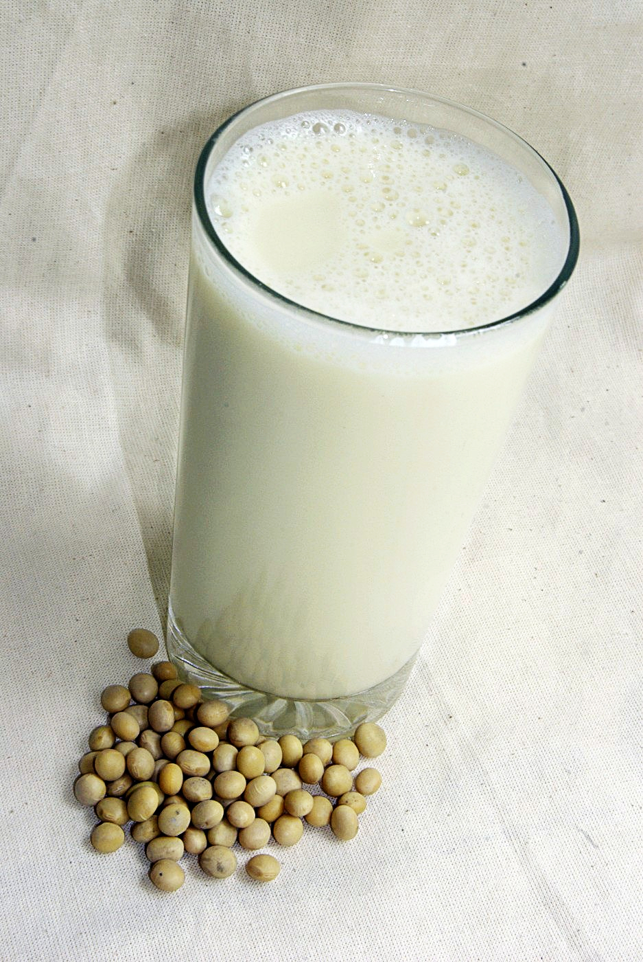 Glass of soy milk and soy beans.